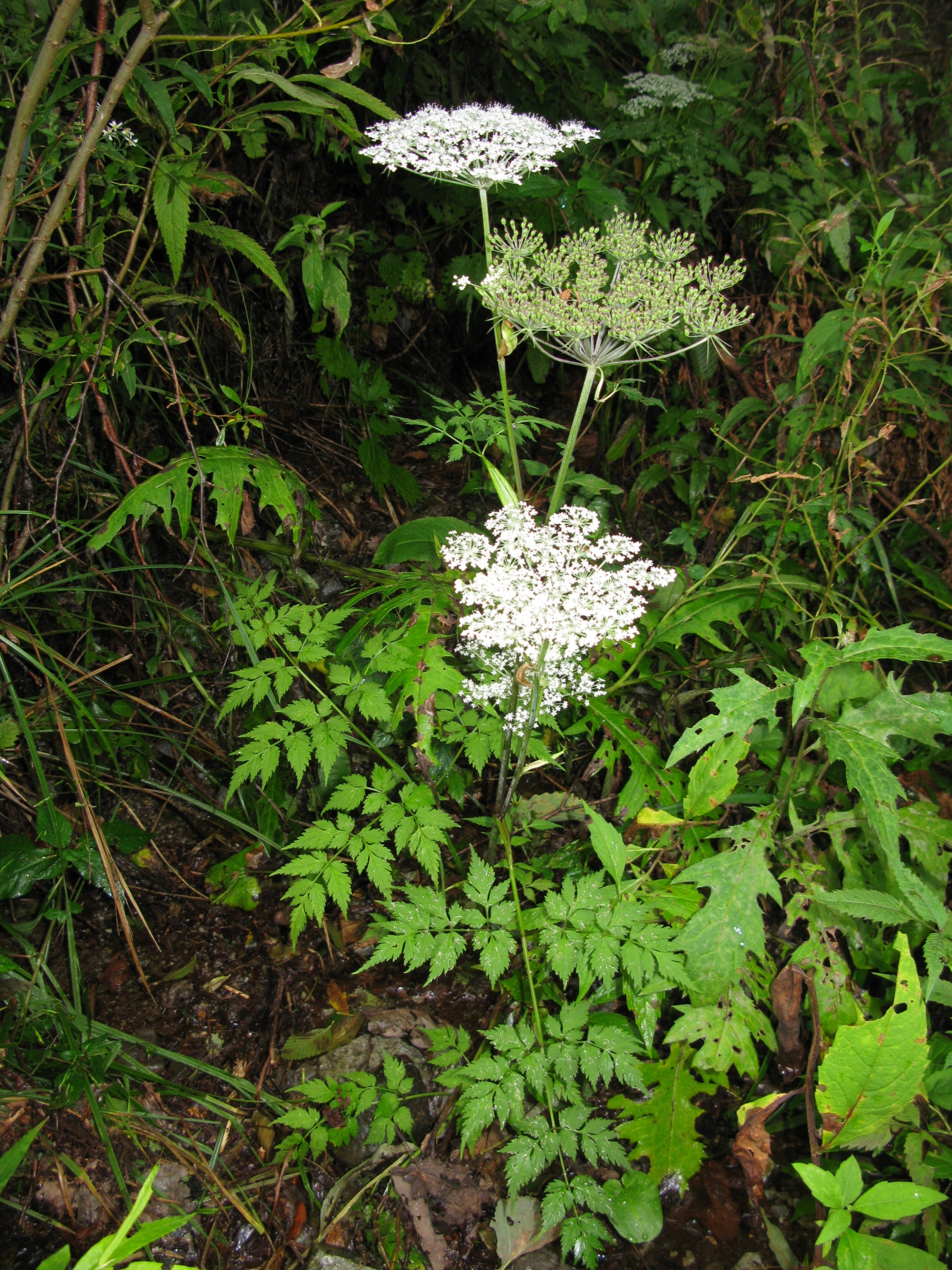 Angelica polymorpha, Aizu area, Fukushima pref., Japan